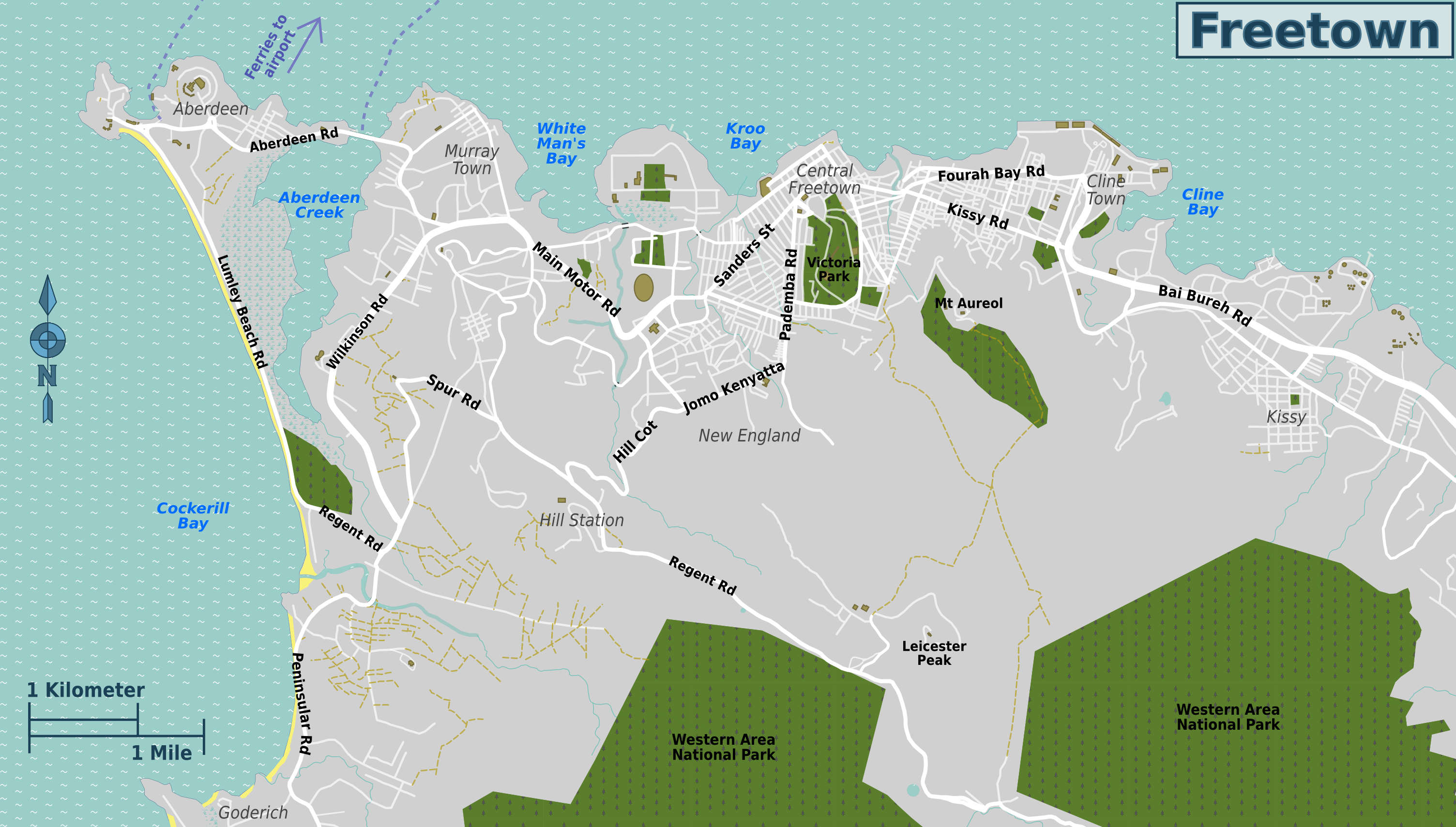 Freetown overview map. English, Freetown Map of: Freetown¤.